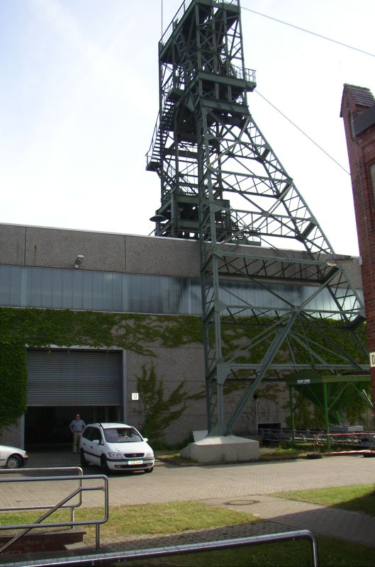 Headframe of Asse II shaft. (Germany). Used for researsh on Deep geological repository